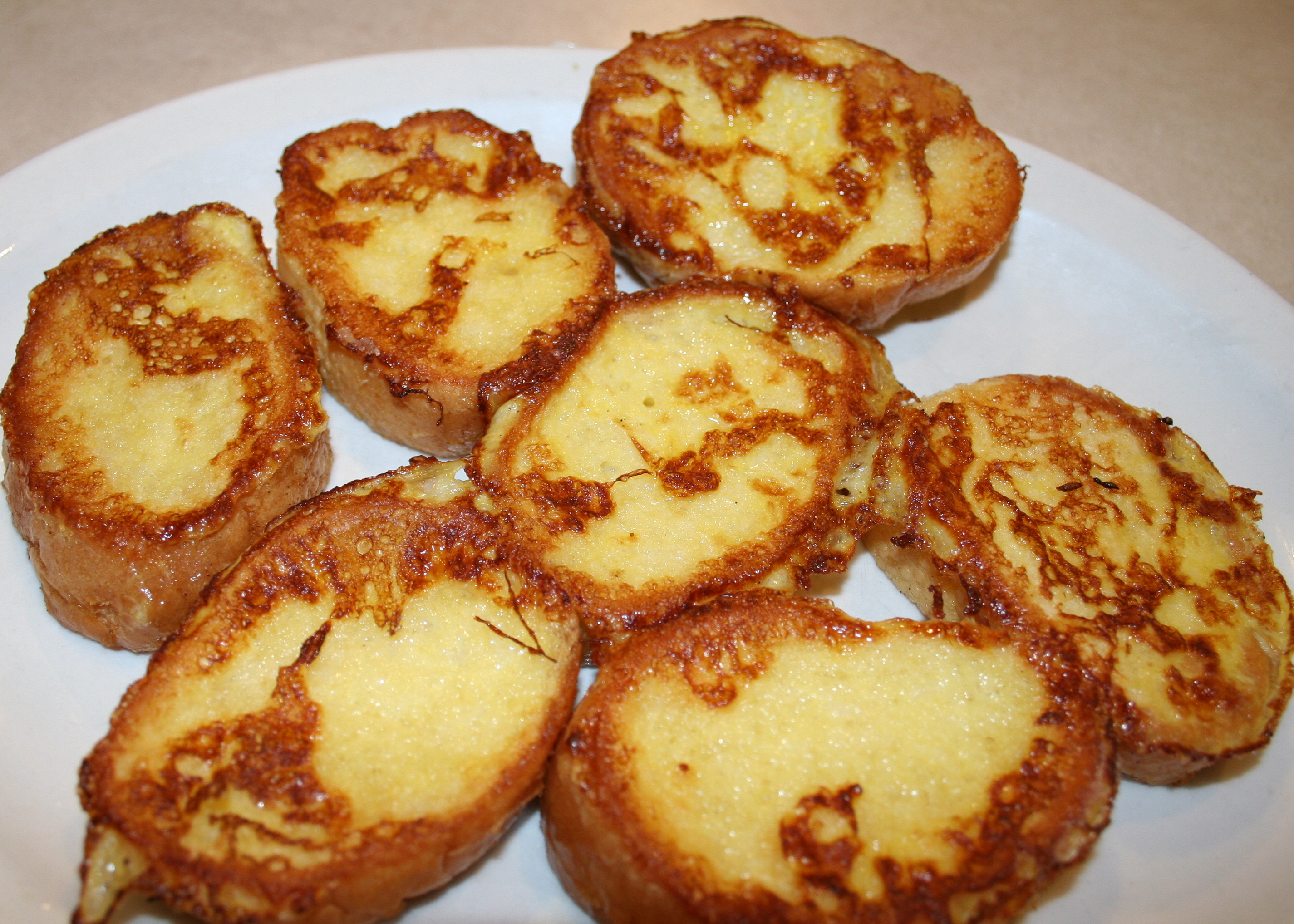 French toast served at Mac's Restaurant in Rochester, Minnesota, United States